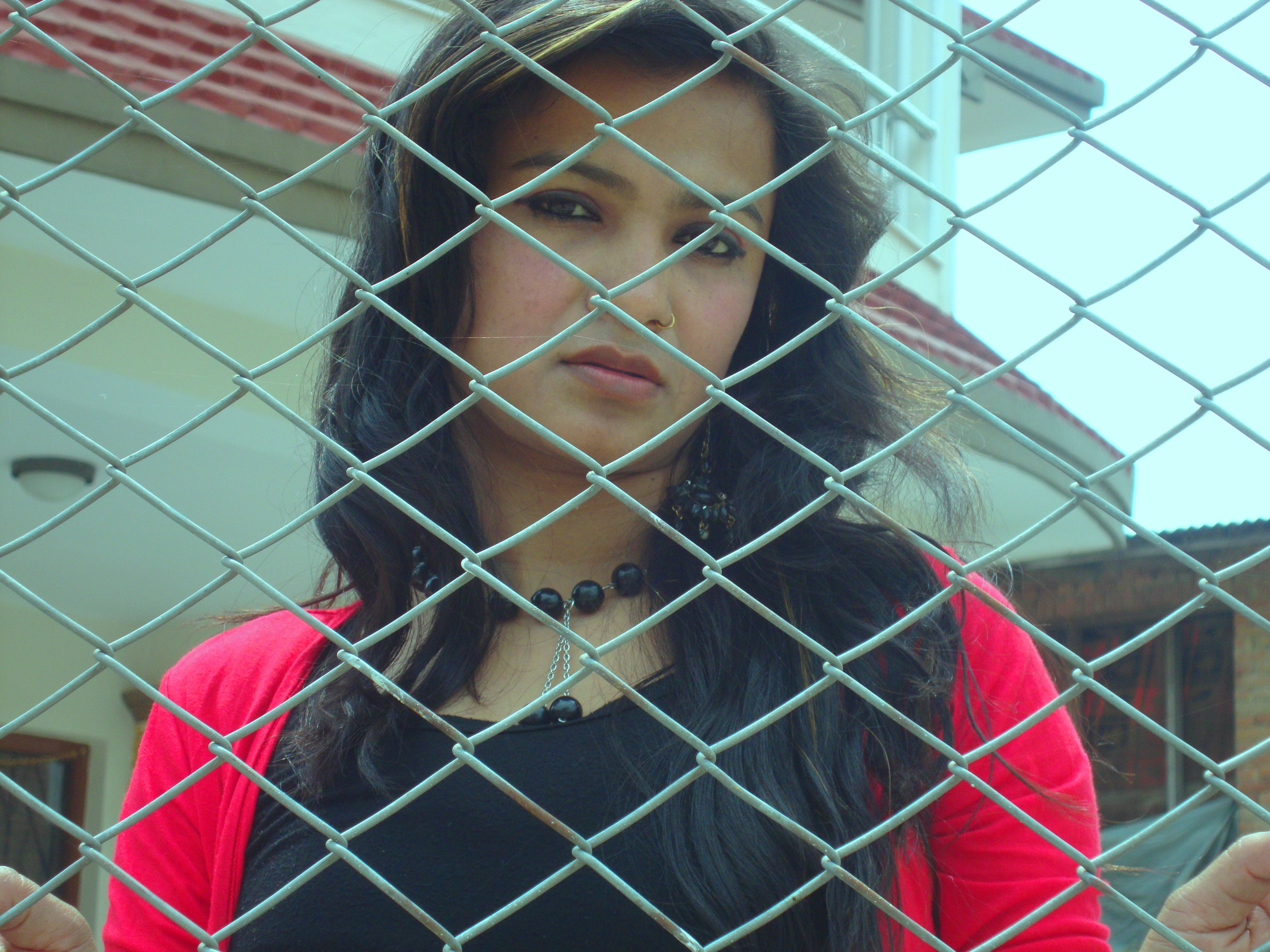 Sashi Rawal is a nepalese singer mostly popular amonst youngsters.